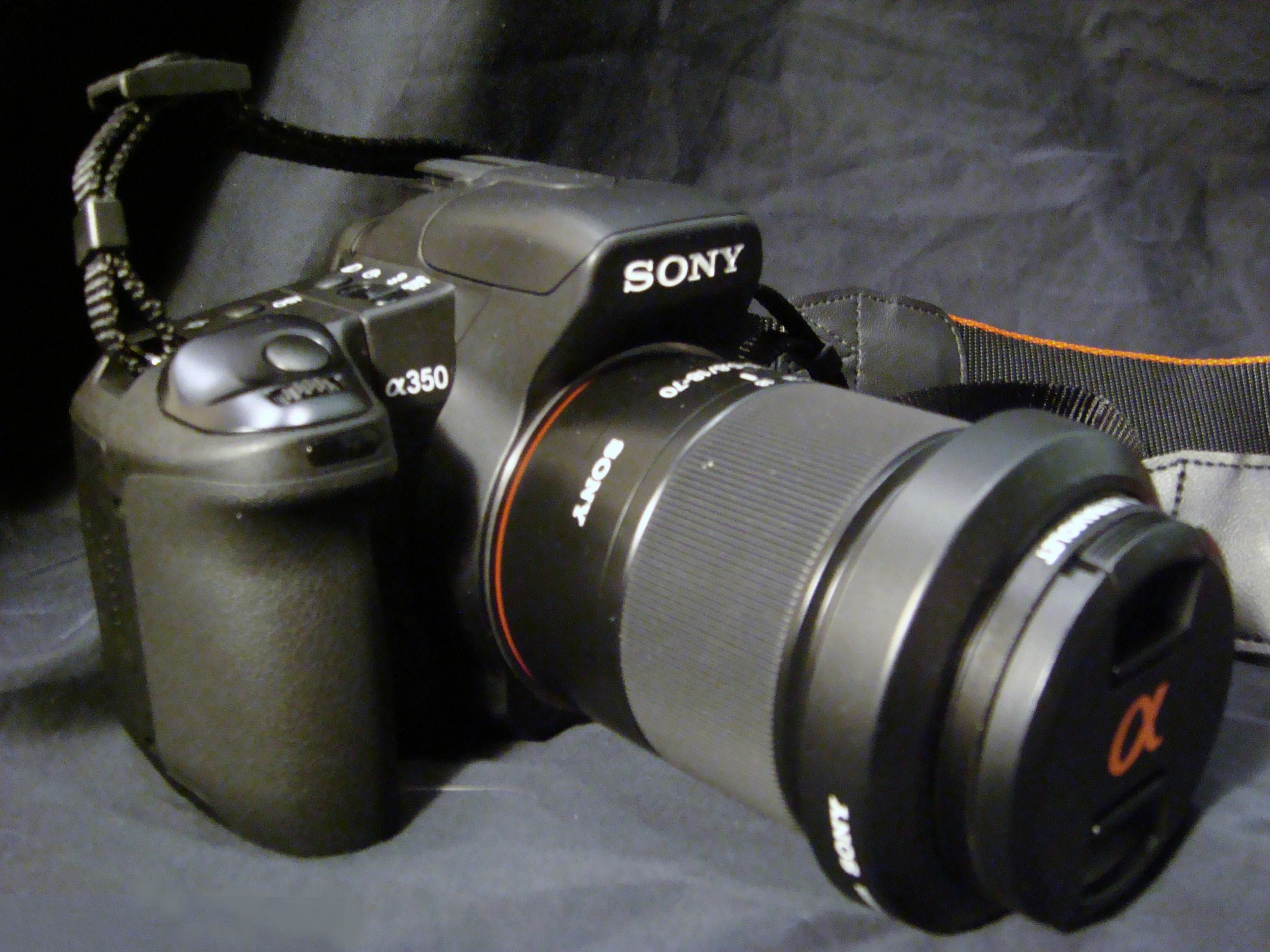 Sony A-350